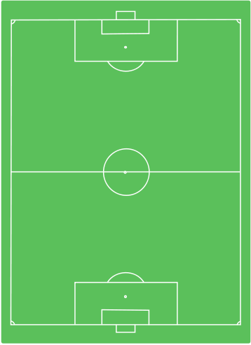 Vertical Soccer field template